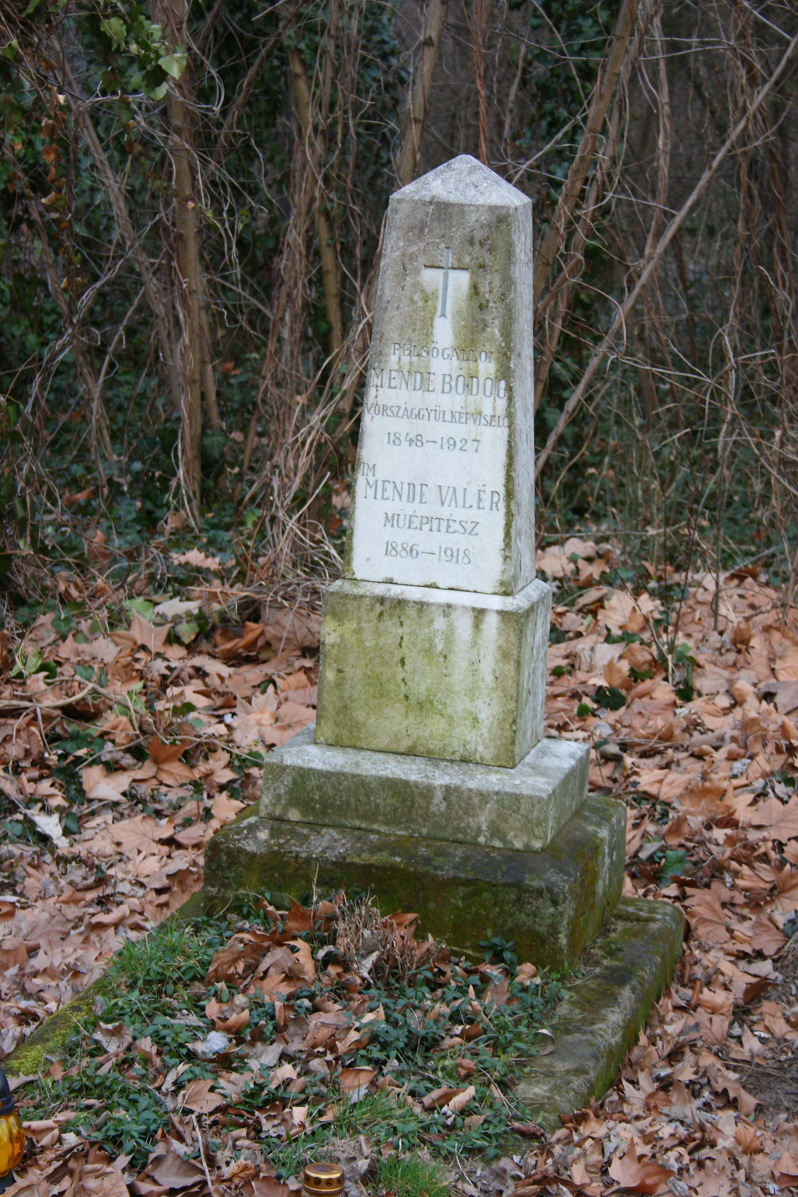 Tomb of Hungarian architect Valér Mende (1886–1918) in Kerepesi Cemetery, Budapest